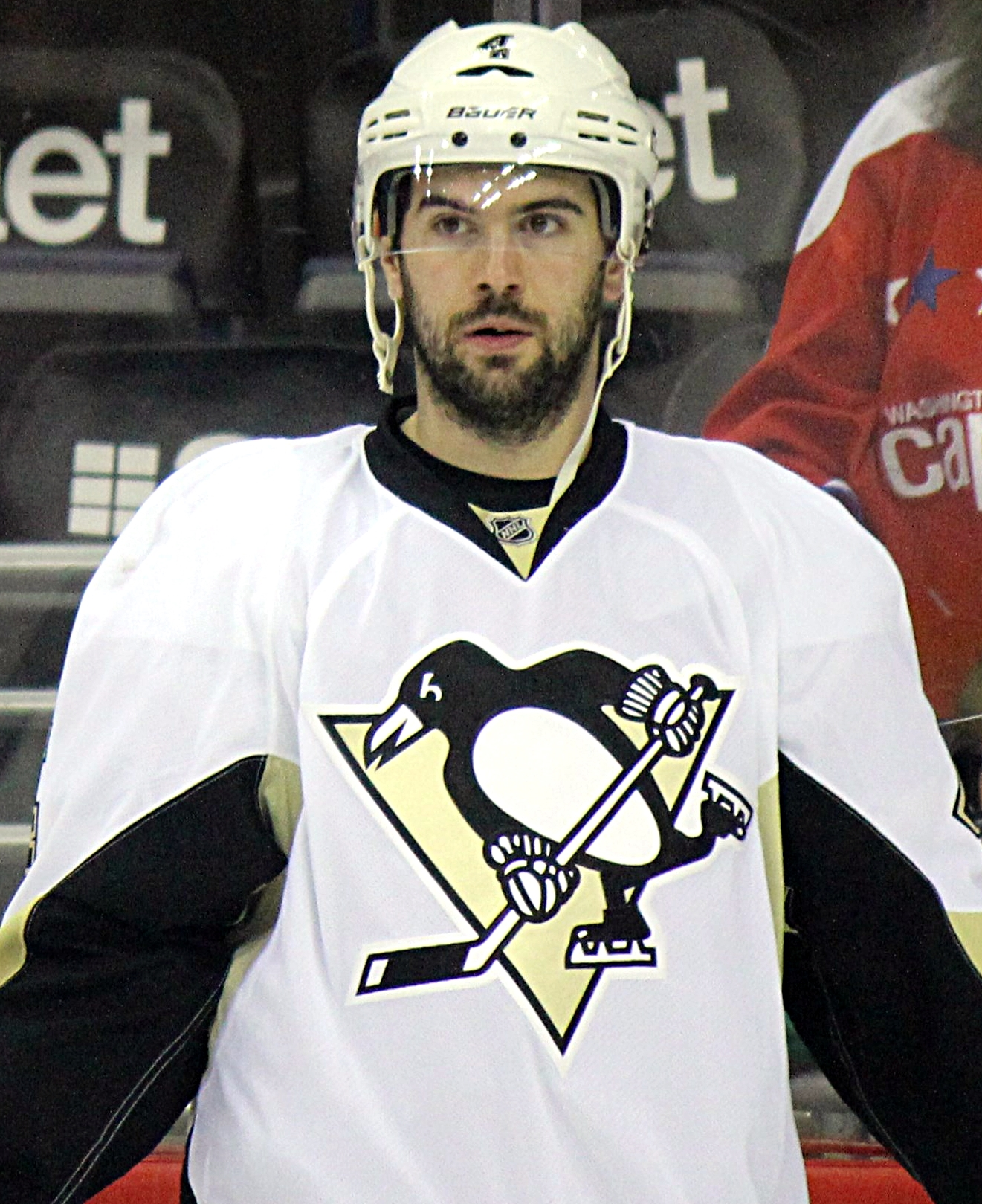 Pittsburgh Penguins defenseman Justin Schultz during a playoff game against the Washington Capitals, Thursday, April 28, 2016 at Verizon Center in Washington, D.C.